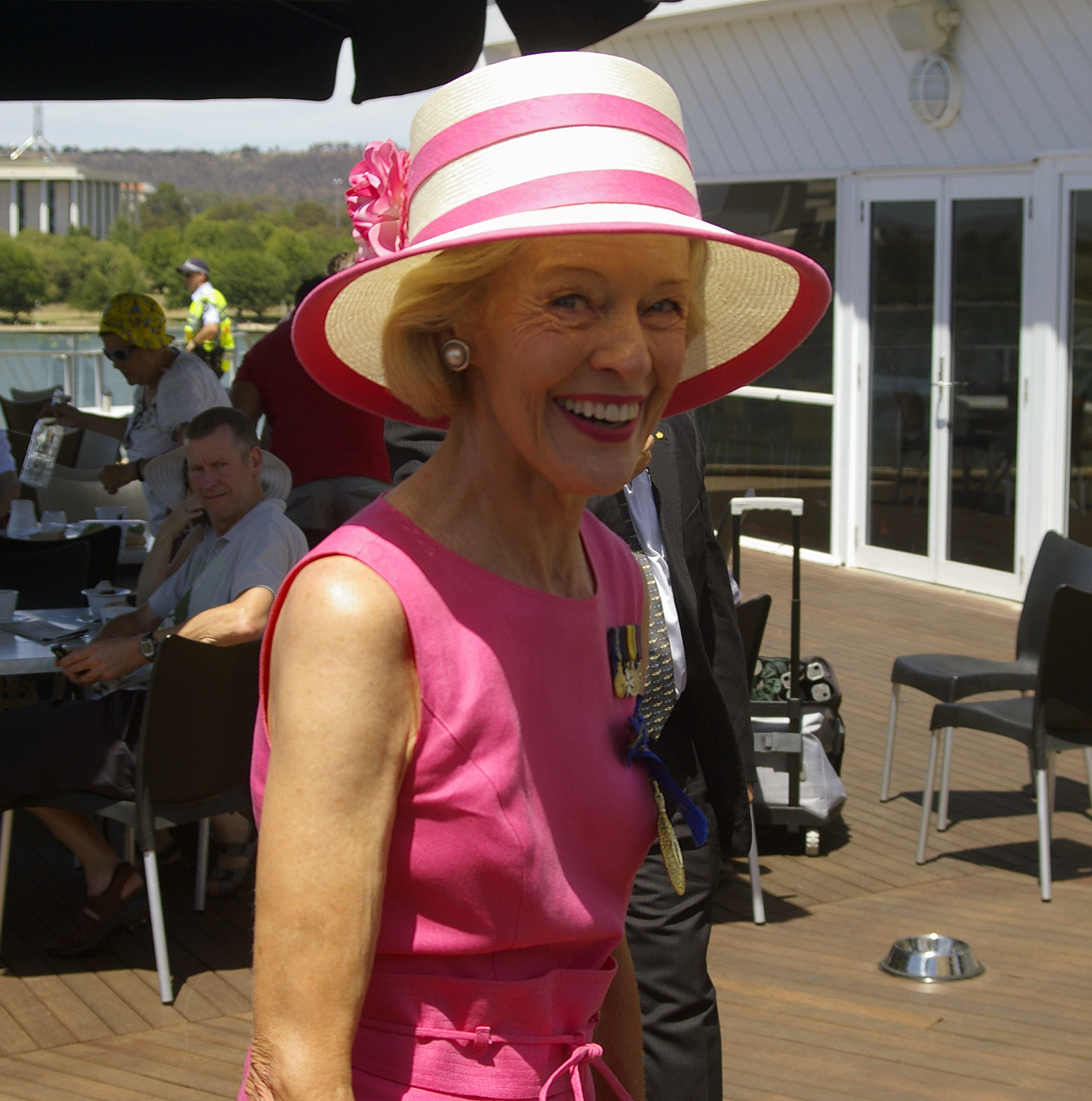 Governor-General of Australia, Quentin Bryce after an interview with Sky News Australia at The Deck at Regatta Point, Canberra.